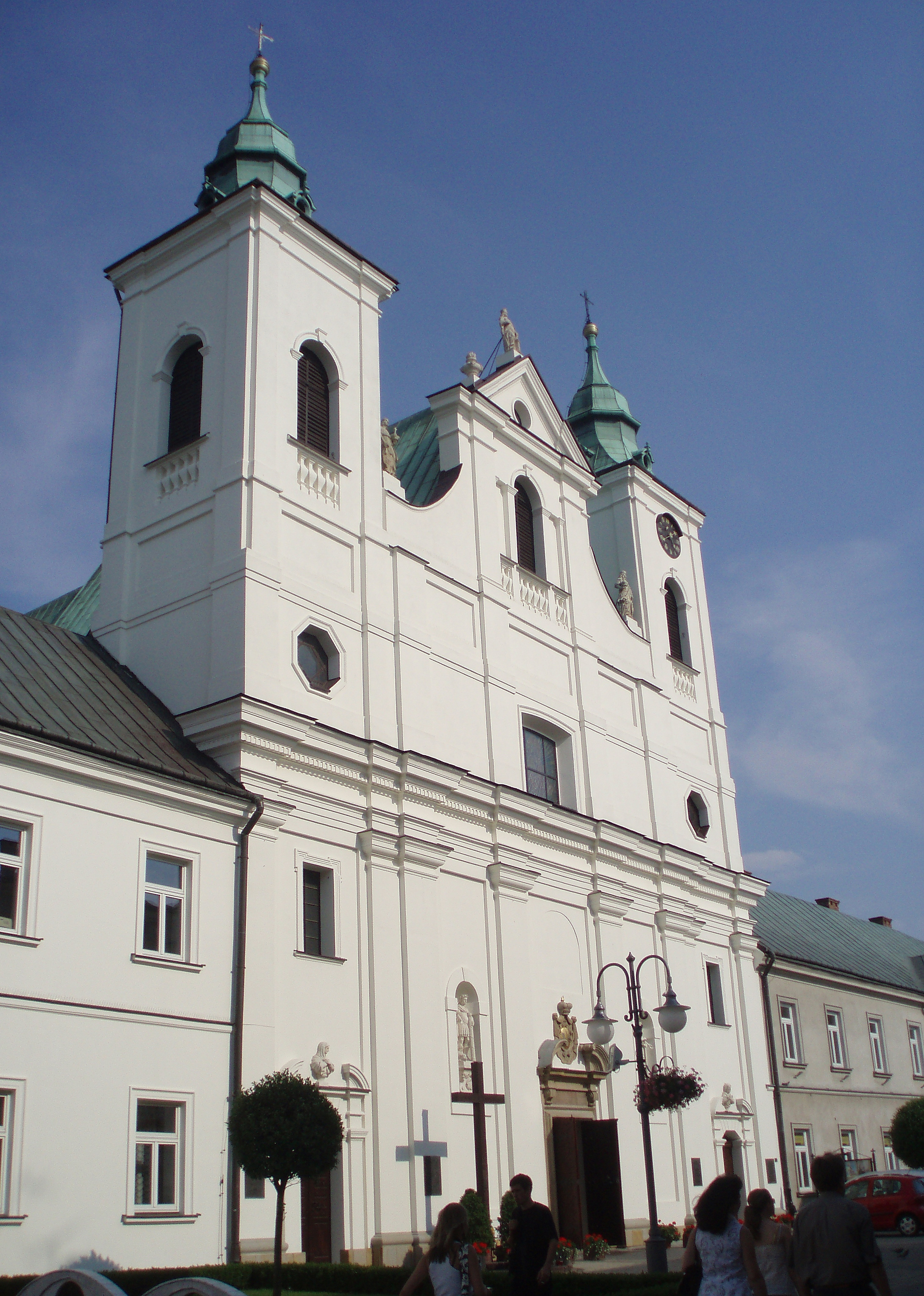 The Choly Cross Church in Rzeszów